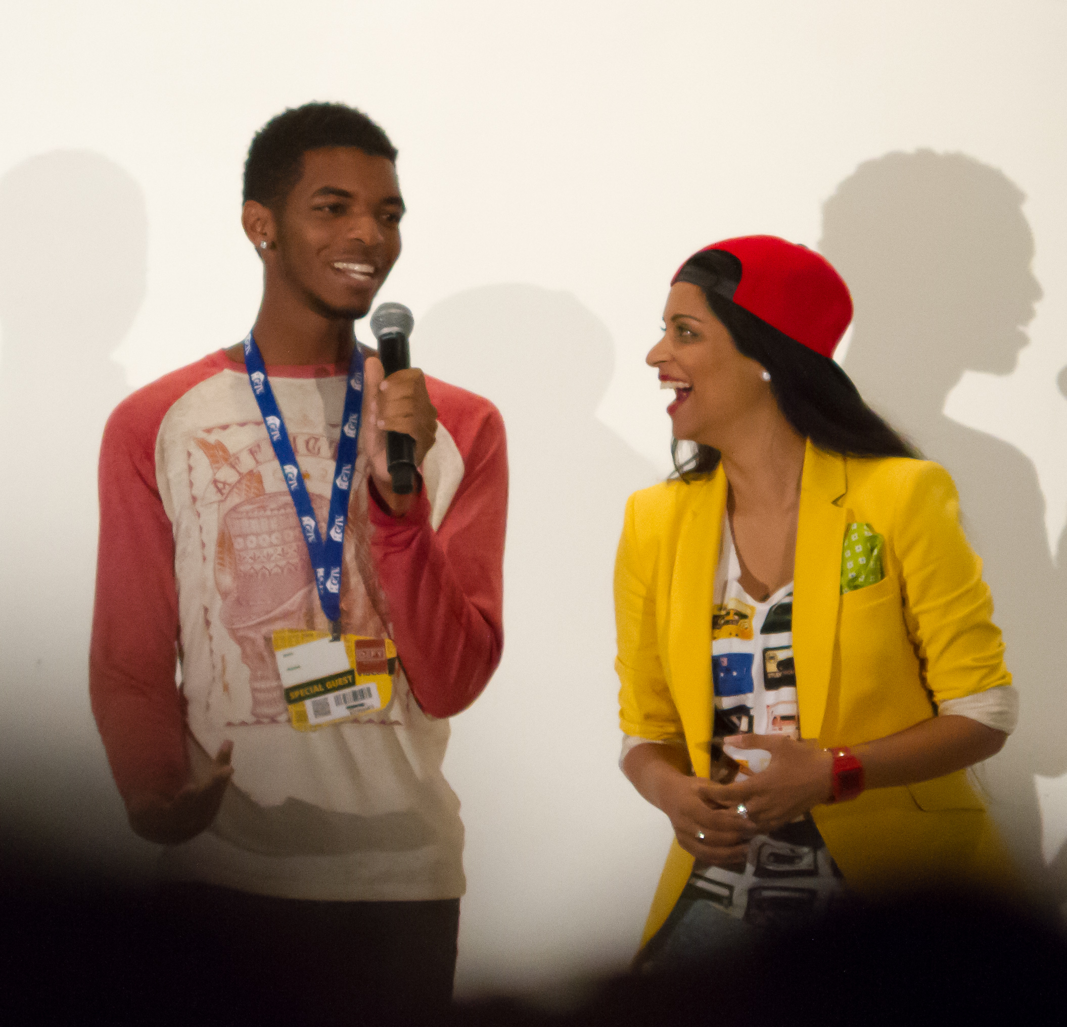 The Q&A session with Kingsley and Lilly Singh at VidCon 2014 in Anaheim, CA.